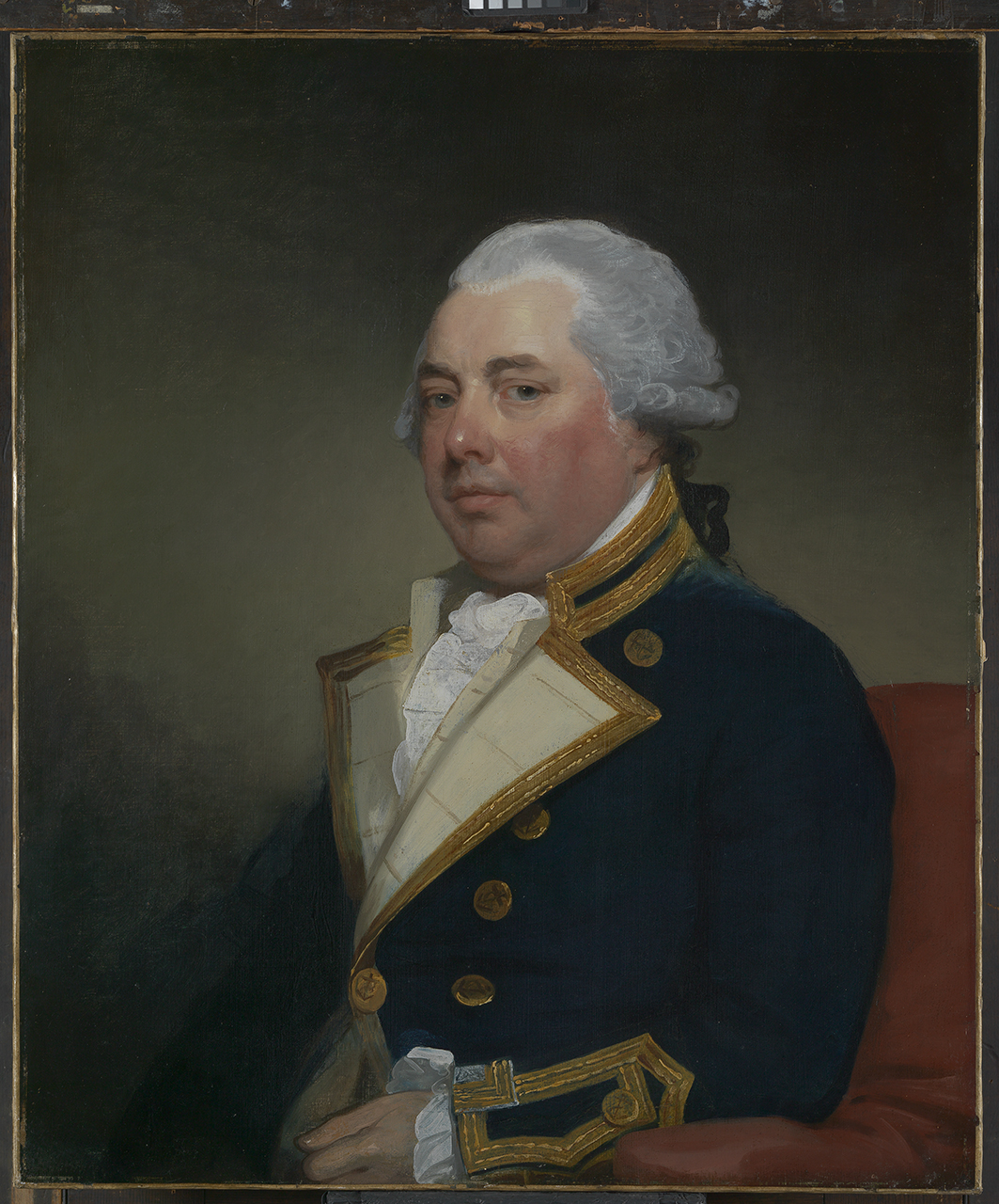 Captain Sir William Abdy, Bt, circa 1732-1803 A half-length portrait to left showing Abdy wearing captain's full-dress uniform, 1774-87 and a white tie wig. Seated in a red chair with his left hand resting on his arm, the sitter confronts the gaze of the viewer. Abdy entered the service of the Hon. East India Company as a midshipman in the 'True Briton' on her voyage of 1750-1752. From 1753-55, he was fourth mate of the 'Stafford'. He then transferred to the Royal Navy and commanded the 'Beaver', 14 guns, both in home waters and in the West Indies, 1761-66. He was made a post captain in 1766 but did not serve again. In 1775, he succeeded his brother to the family baronetcy. Stuart was an American painter who was also active in England and Ireland. He was in London from 1775 until 1787 where, early in 1775, he entered the studio of Benjamin West, 1738-1820, for whom he painted drapery and finished portraits. Stuart exhibited for the first time at the Royal Academy in the spring of 1787. He maintained an expensive London establishment and had considerable success as a fashionable portrait painter to both English and American sitters who found themselves in London. However, in 1787, Stuart fled to Dublin-almost certainly to escape his creditors-where he remained for five years. In the spring of 1793, he returned to America, leaving behind scores of unfinished canvases. He subsequently lived and worked in New York, and then Philadelphia, where George Washington posed for him during 1795. He moved to Boston in 1805 where he remained for the rest of his life both painting and advising fellow artists. Oil final Gilbert Stuart